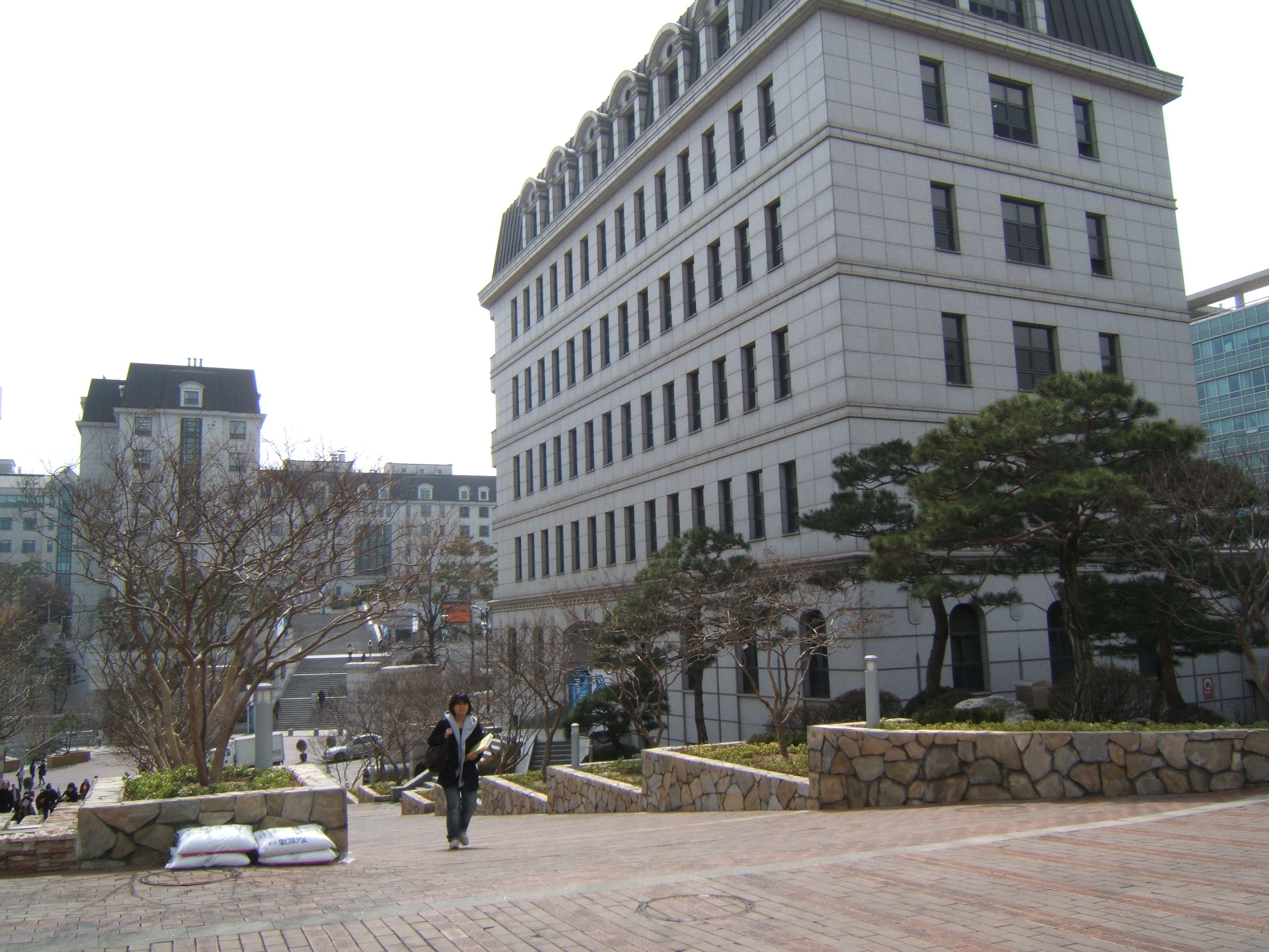 Administration Building at Sookmyung Women's University.